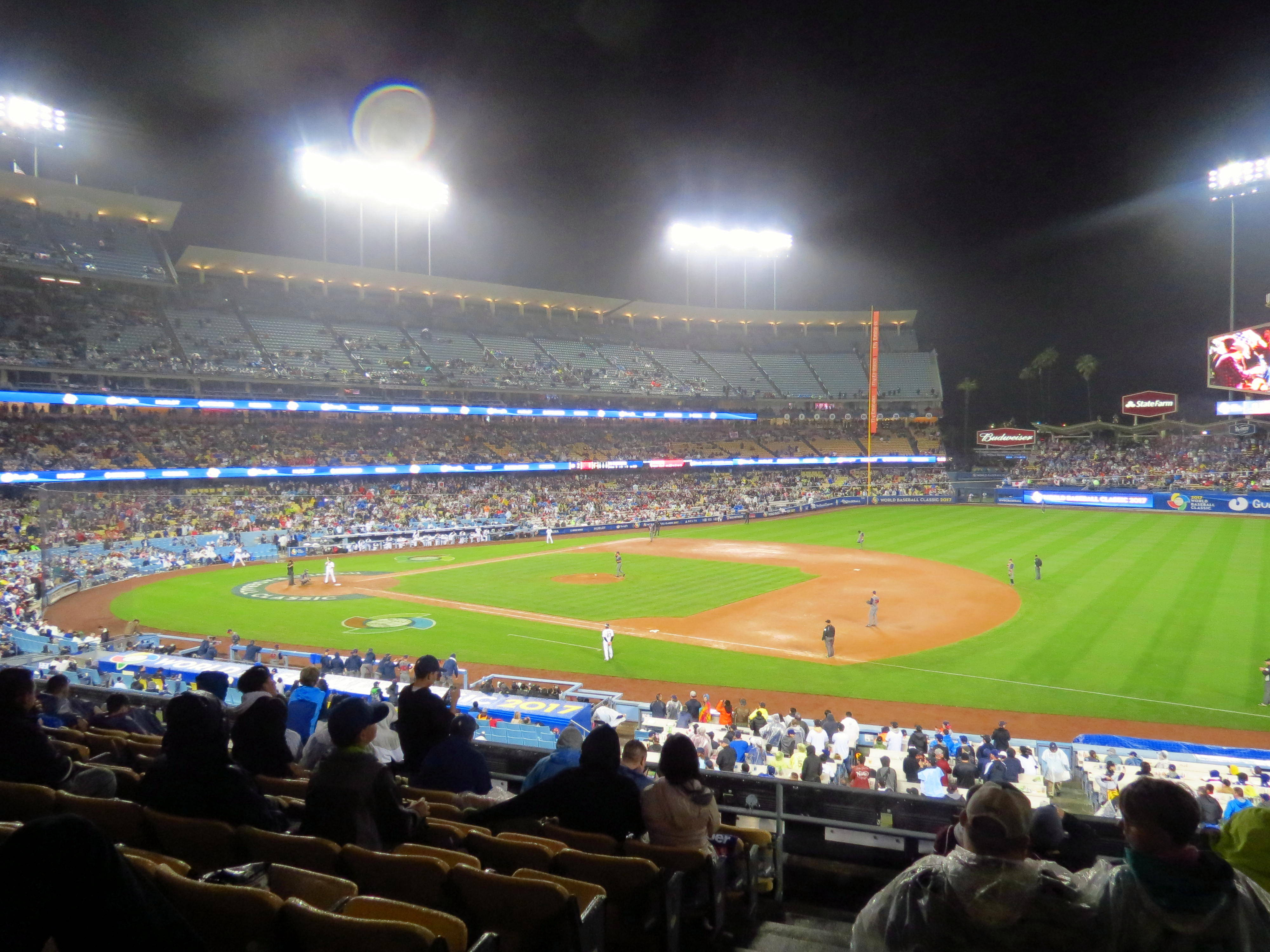 2017 World Baseball Classic United States vs. Japan